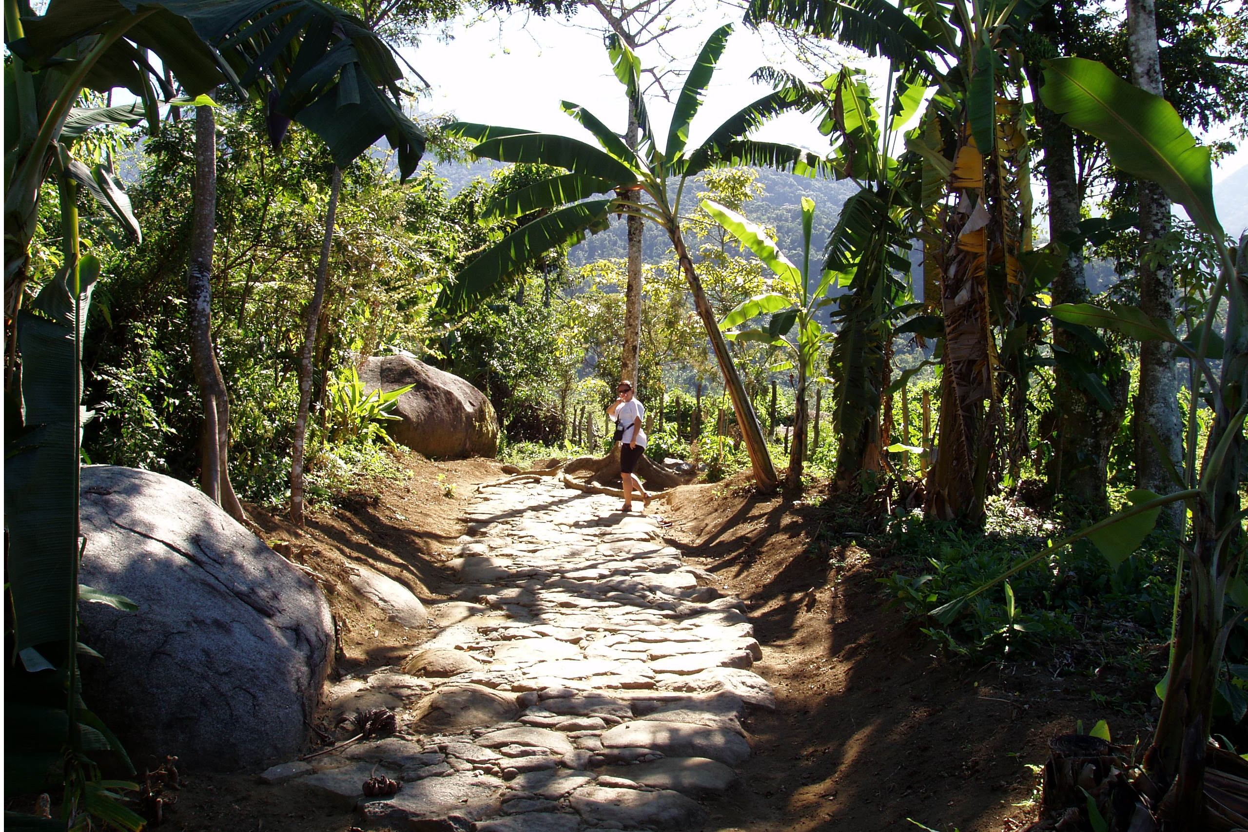 Will Canova